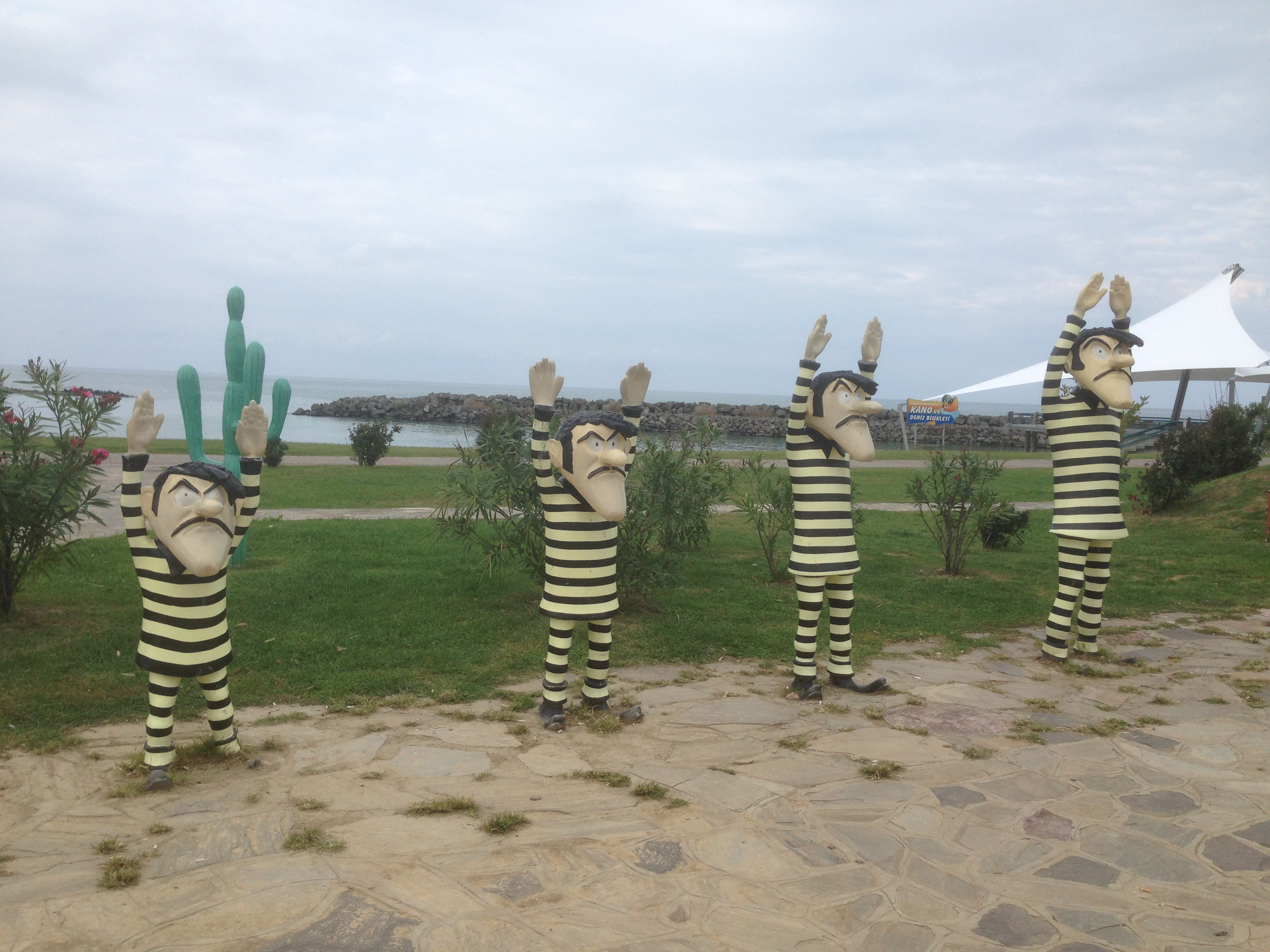 The Daltons (Lucky Luke), Turkey.